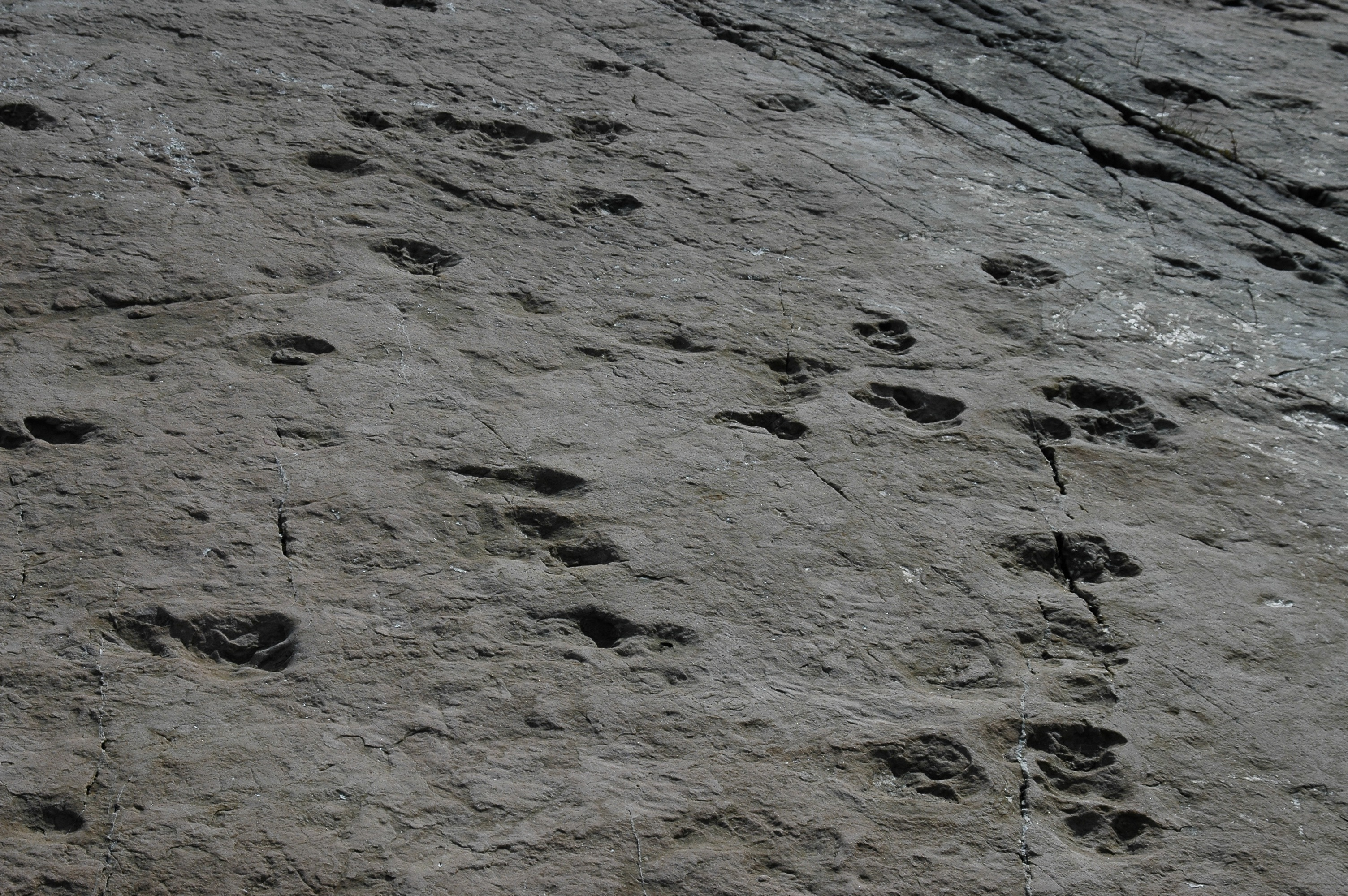 An ensemble of Dinosauria footprints.